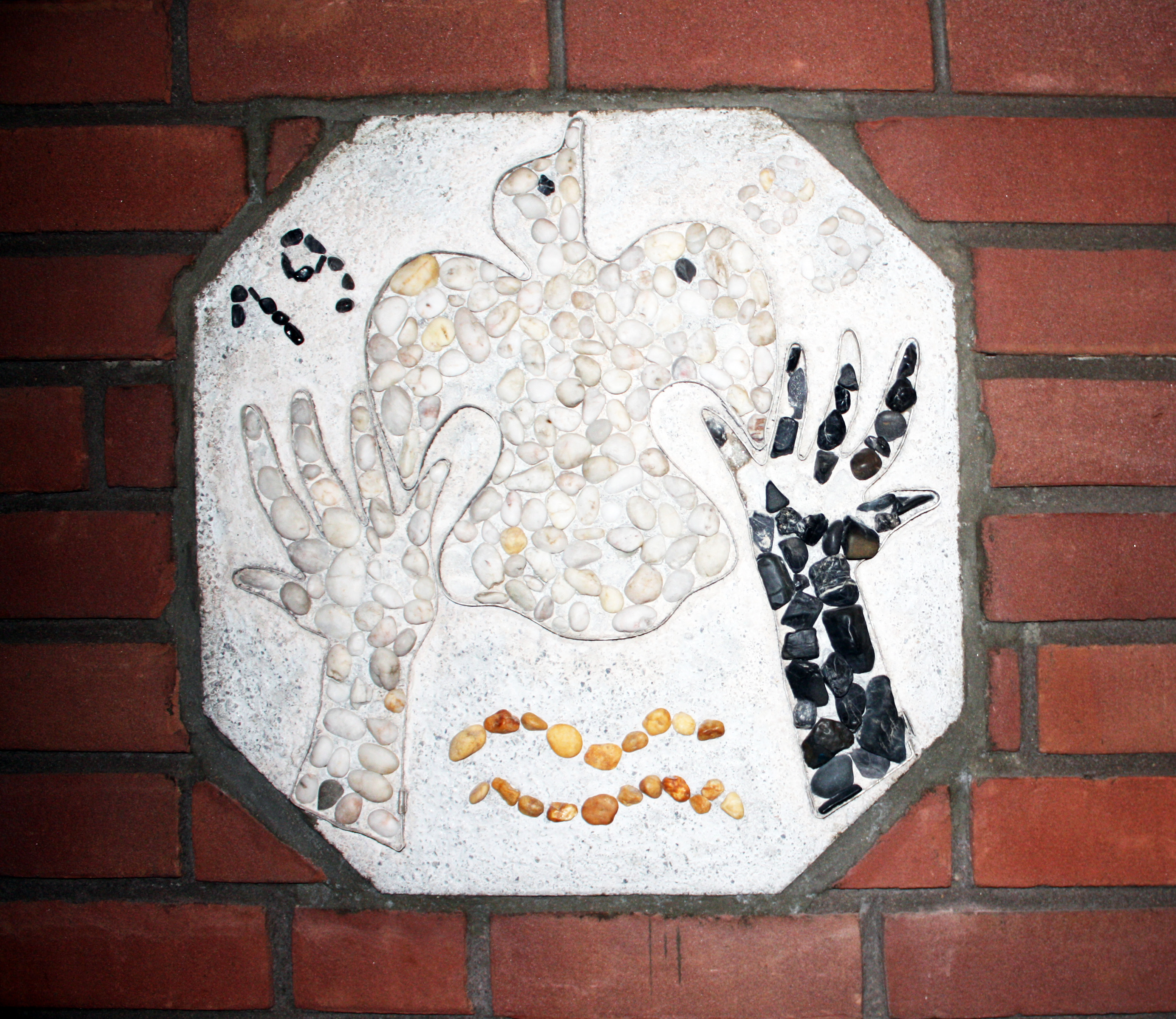 Martin Luther King Church, Hürth